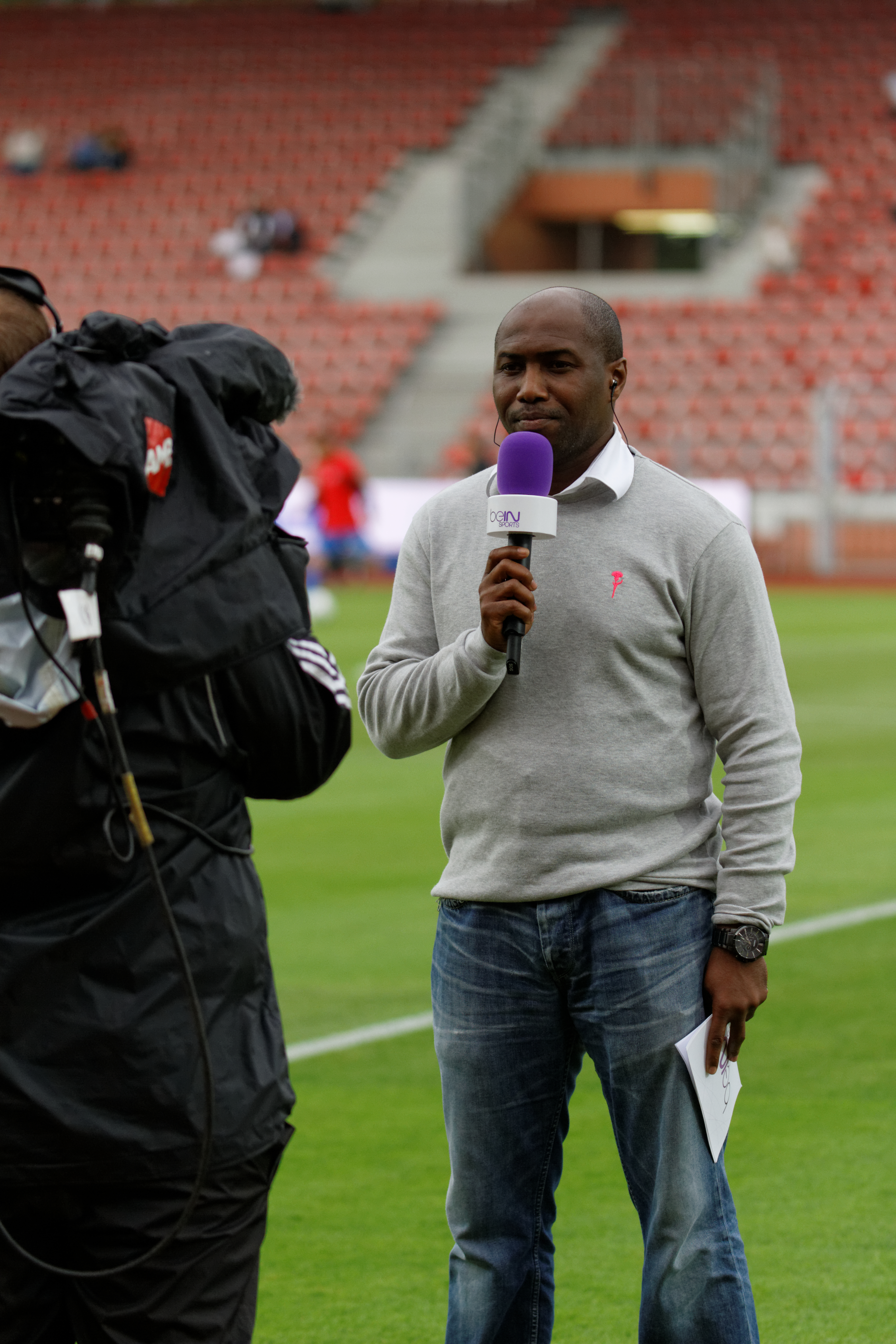 Créteil vs Châteauroux, 8th August 2014.